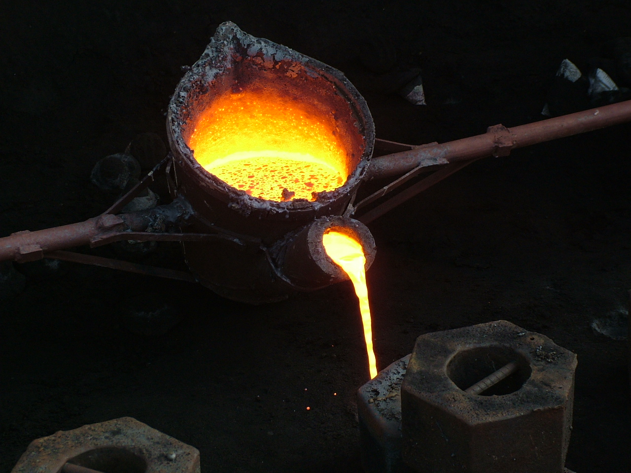 place design castings factory, coimbatore, india cast iron melting